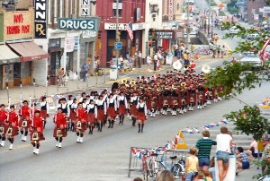 Dundee Scots marching in Downtown West Dundee circa 1972